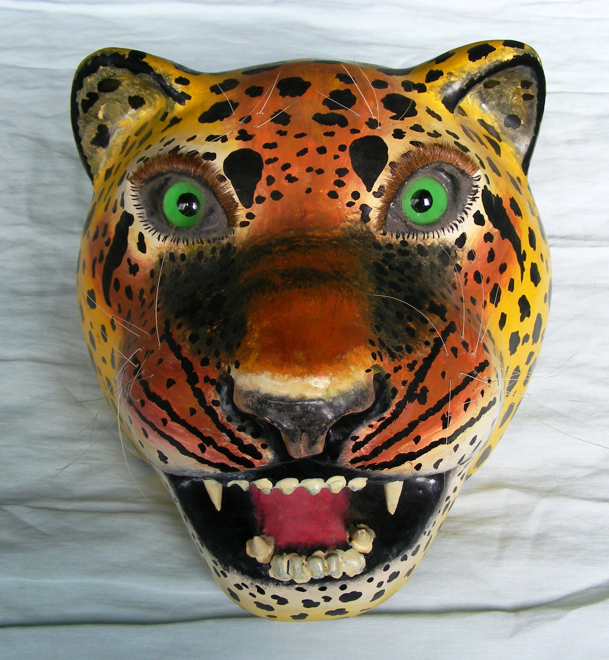 Traditional mask of the calala dance from Chiapa de Corzo. Made in 1990.